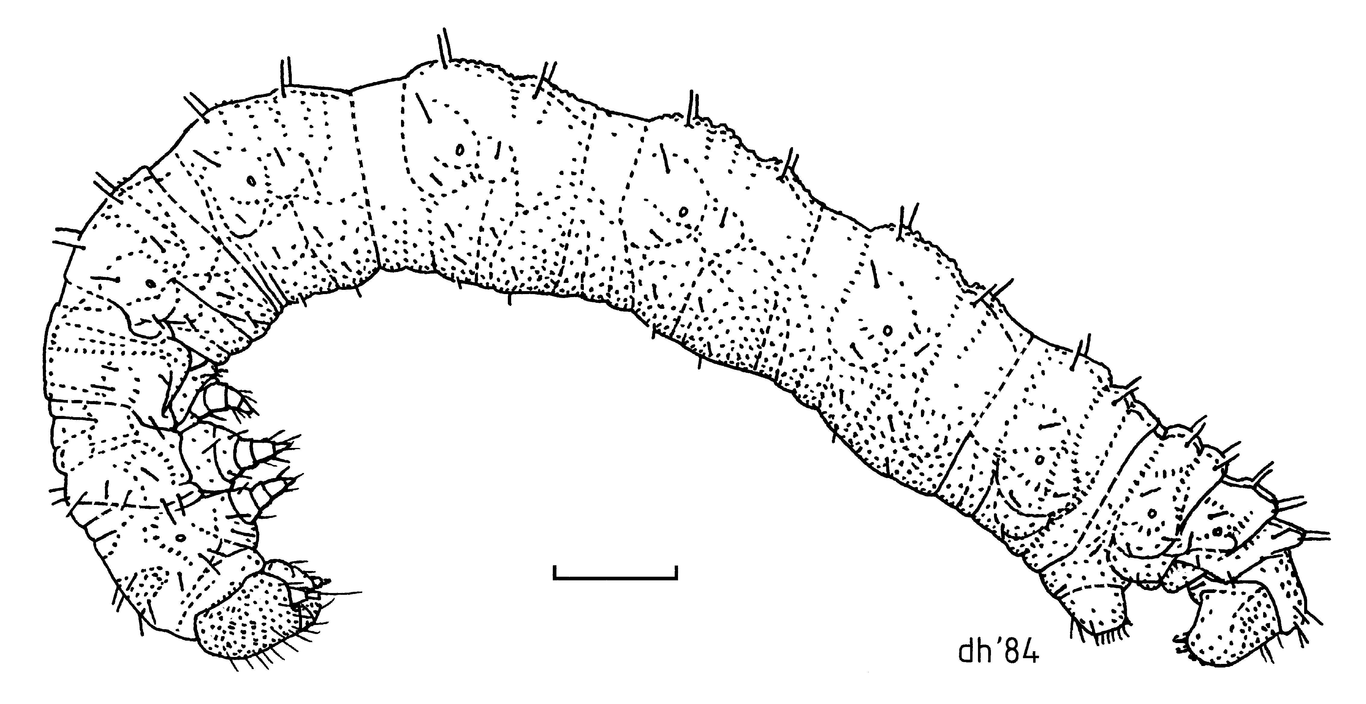 (Lepidoptera: Geometridae) Arctesthes catapyrrha larva illustrated by Des Helmore.